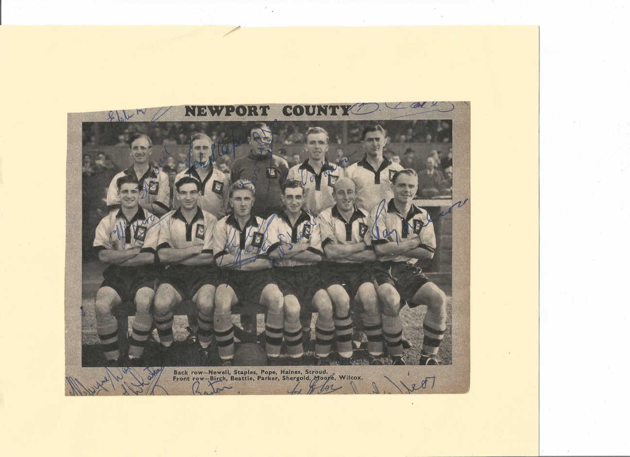 Billy Shergold and Newport County FC